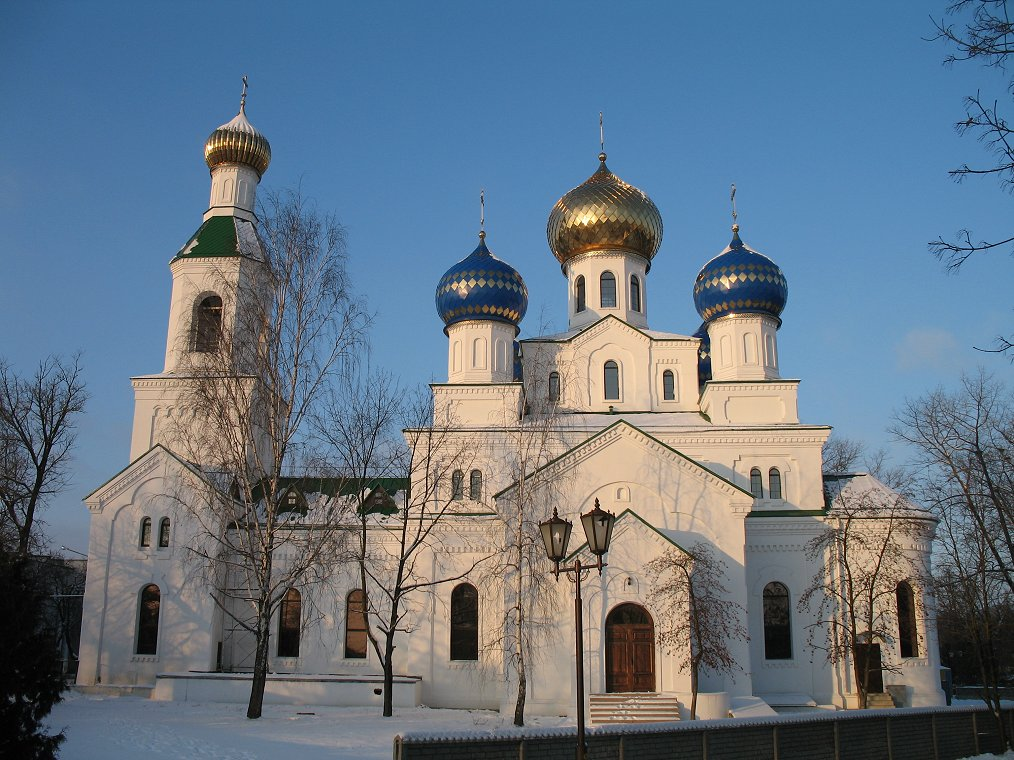 Recently rebuilt Orthodox church in Bobrujsk downtown, in Belarus. This building was taken into another use (swimming pool) during the Soviet time, and is currently being rebuild into church in 2006-2009.